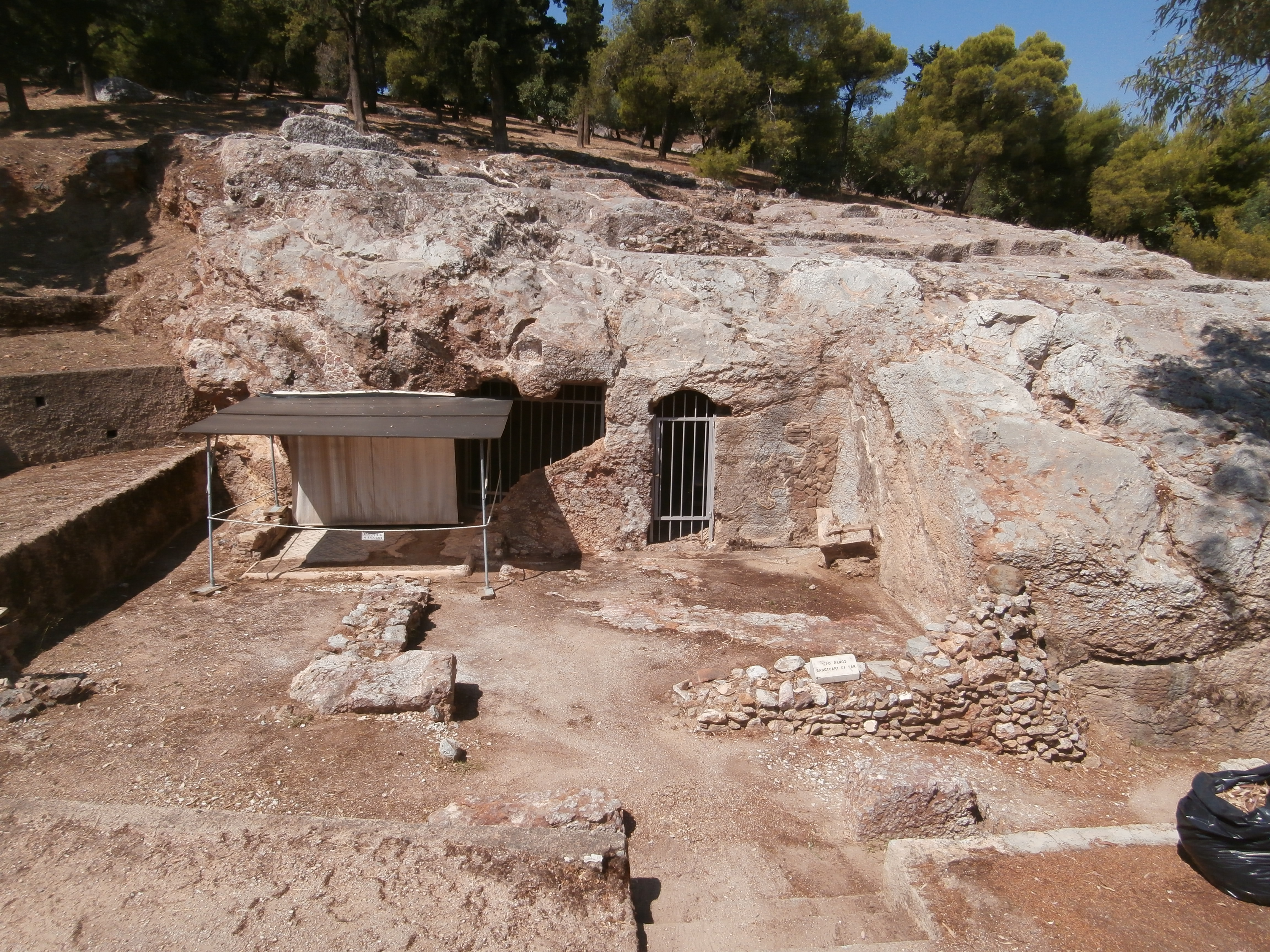 The sanctuary of Pan, near Pnyx